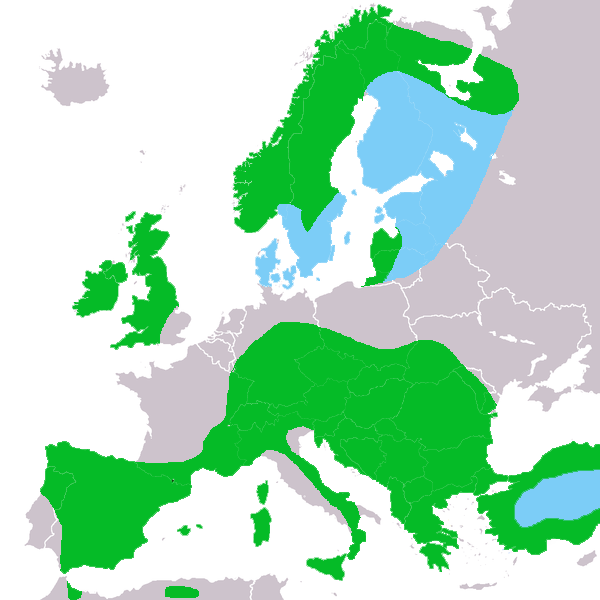 Cinklus Cinclus, Europe. Green=All year, Blue=winter. Friman